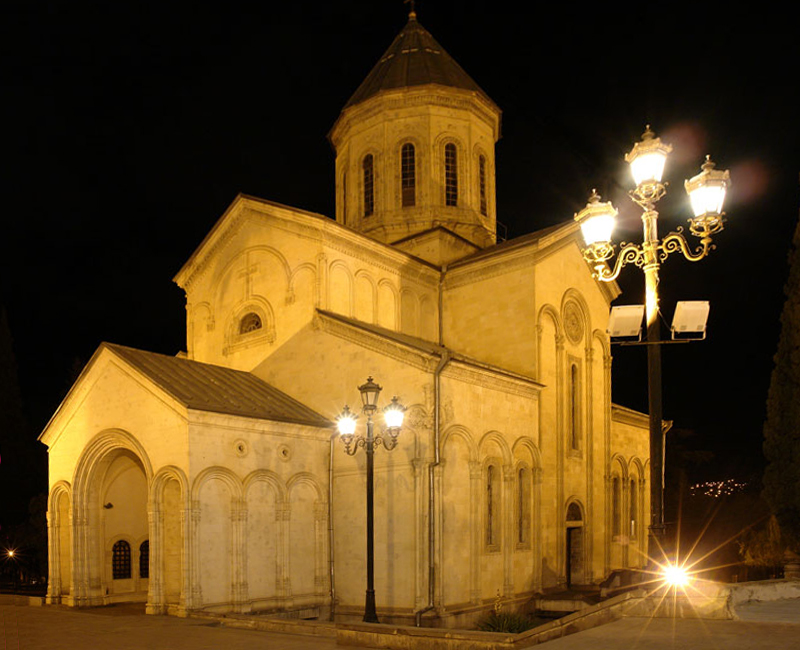 Kashveti Church in Tbilisi